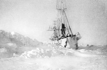 The Fram in the ice.